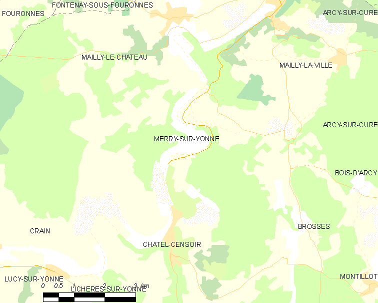 Map of French municipality Merry-sur-Yonne